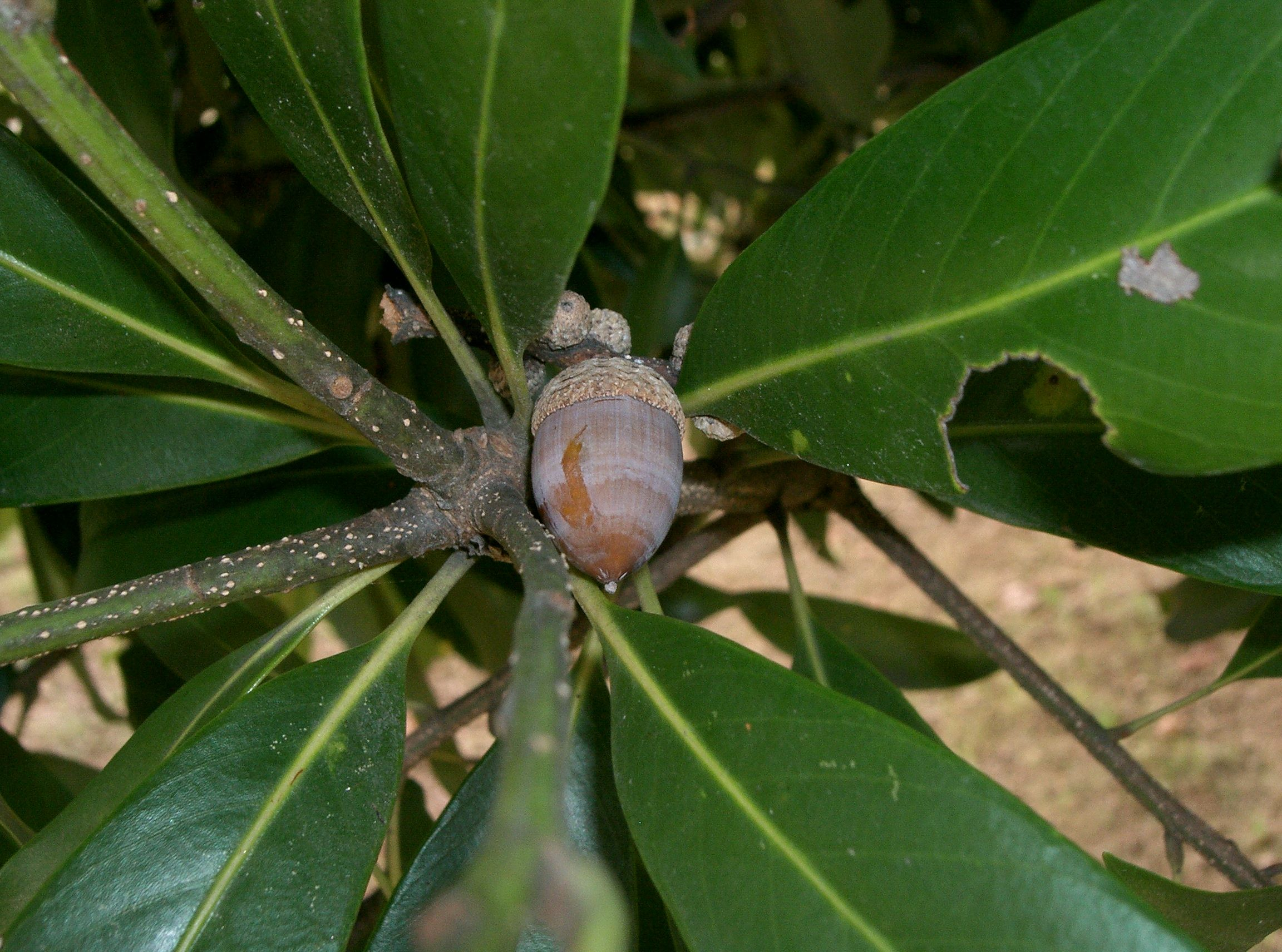 Lithocarpus edulis